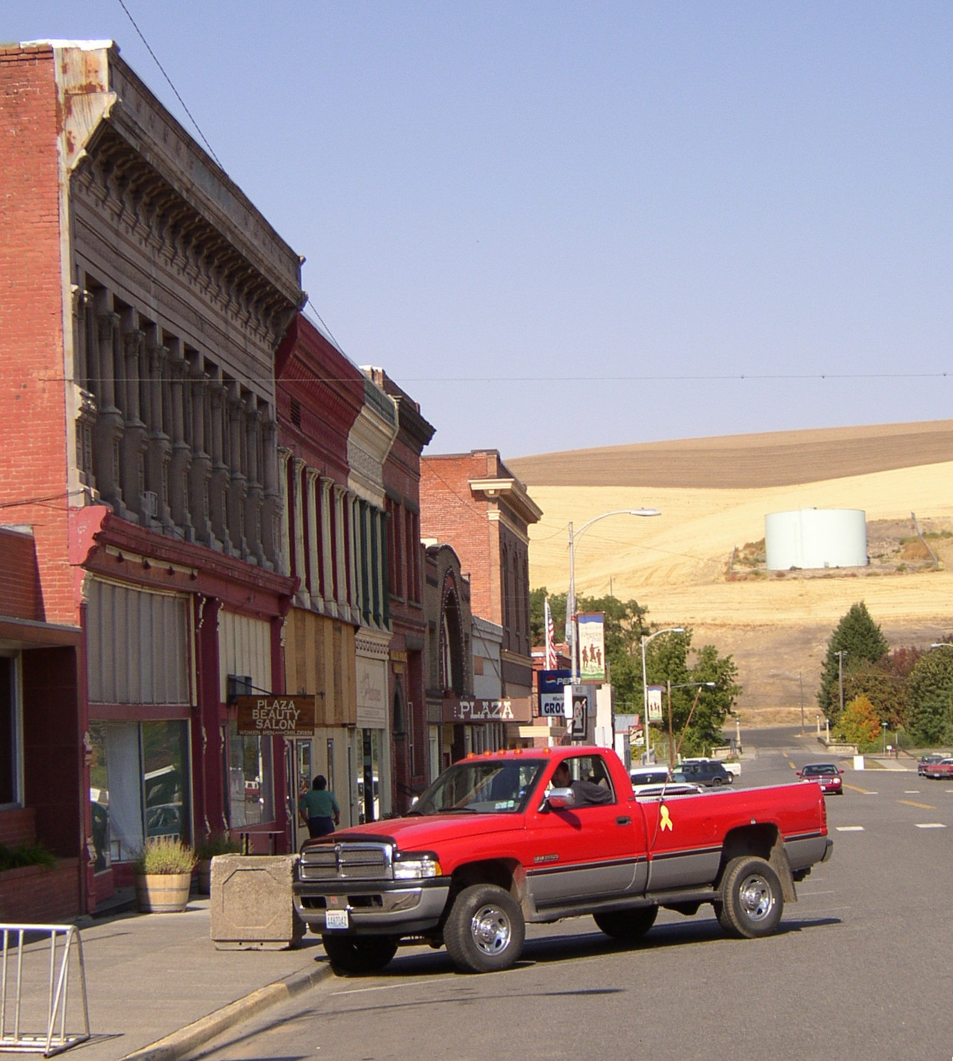 Waitsburg, Washington, USA main street looking north. Touchet River at the far end of this street.